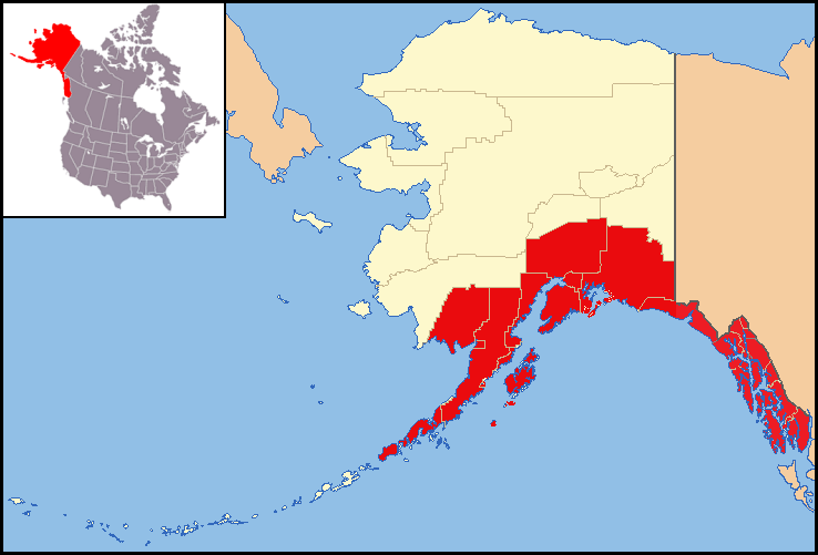 The Catholic Archdiocese of Anchorage-Juneau covers southern Alaska, USA.